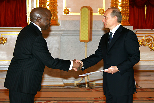 ST ALEXANDER HALL, THE GRAND KREMLIN PALACE. The letter of credential is presented by the Ambassador of the Republic of South Africa, Bheki Winston Joshua Langa.